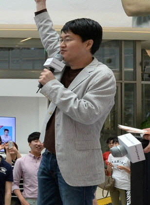 Jeon Yong-Joon (전용준) on June 21, 2014